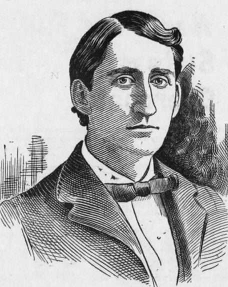 James N. Kehoe (Kentucky Congressman)